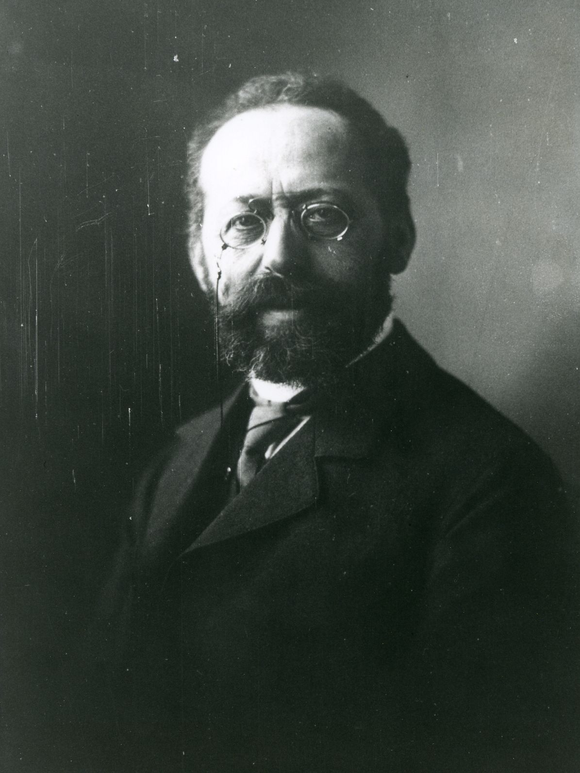 Friedrich Leo (1851-1914), German Professor of Classics. Photograph by August Schmidt, Portrait Collection of the Georg August University Göttingen. Copy in the library of the Seminar für Klassische Philologie